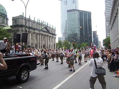 Color guard members perform at the 2002 Divers-Cité pride parade in downtown Montreal.